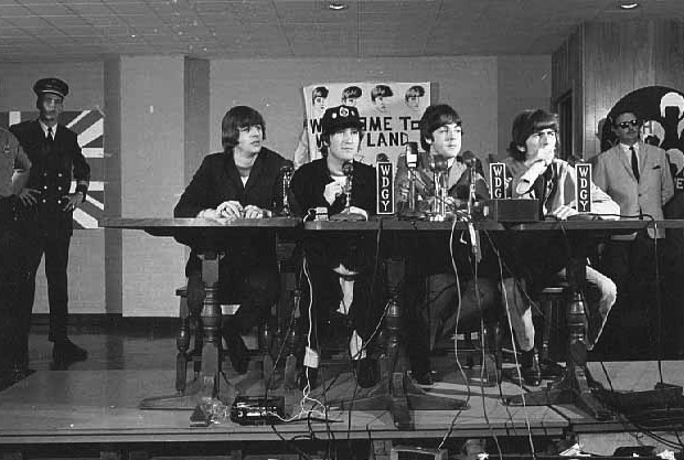 Featured on the Minnesota Historical Society’s Collections Up Close blog. Photo of The Beatles' press conference at the Metropolitan Stadium in Minnesota in 1965.